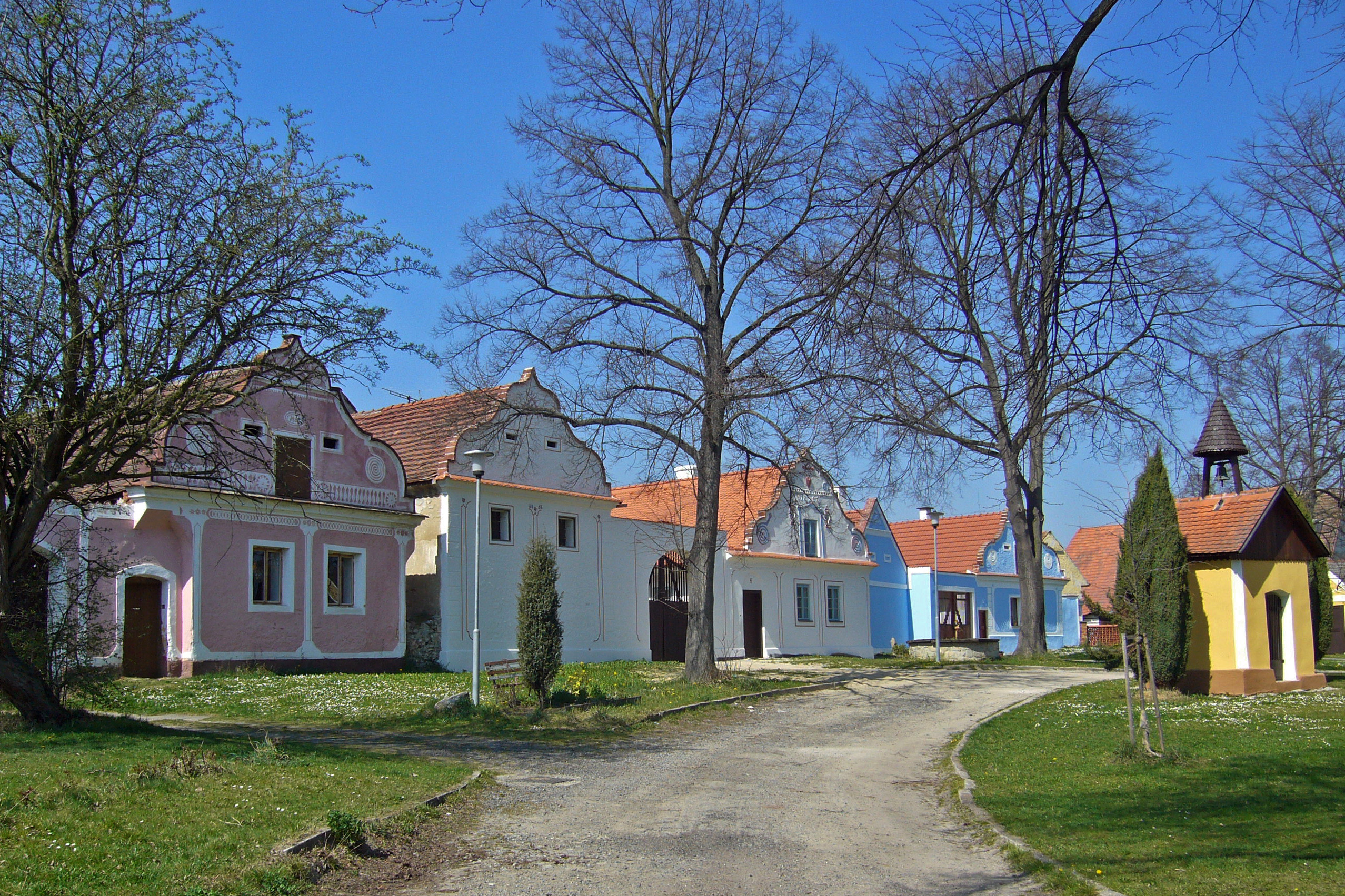 Village green of Malé Chrášťany (part of village Sedlec) in Folk Baroque style in České Budějovice district, South Bohemia region